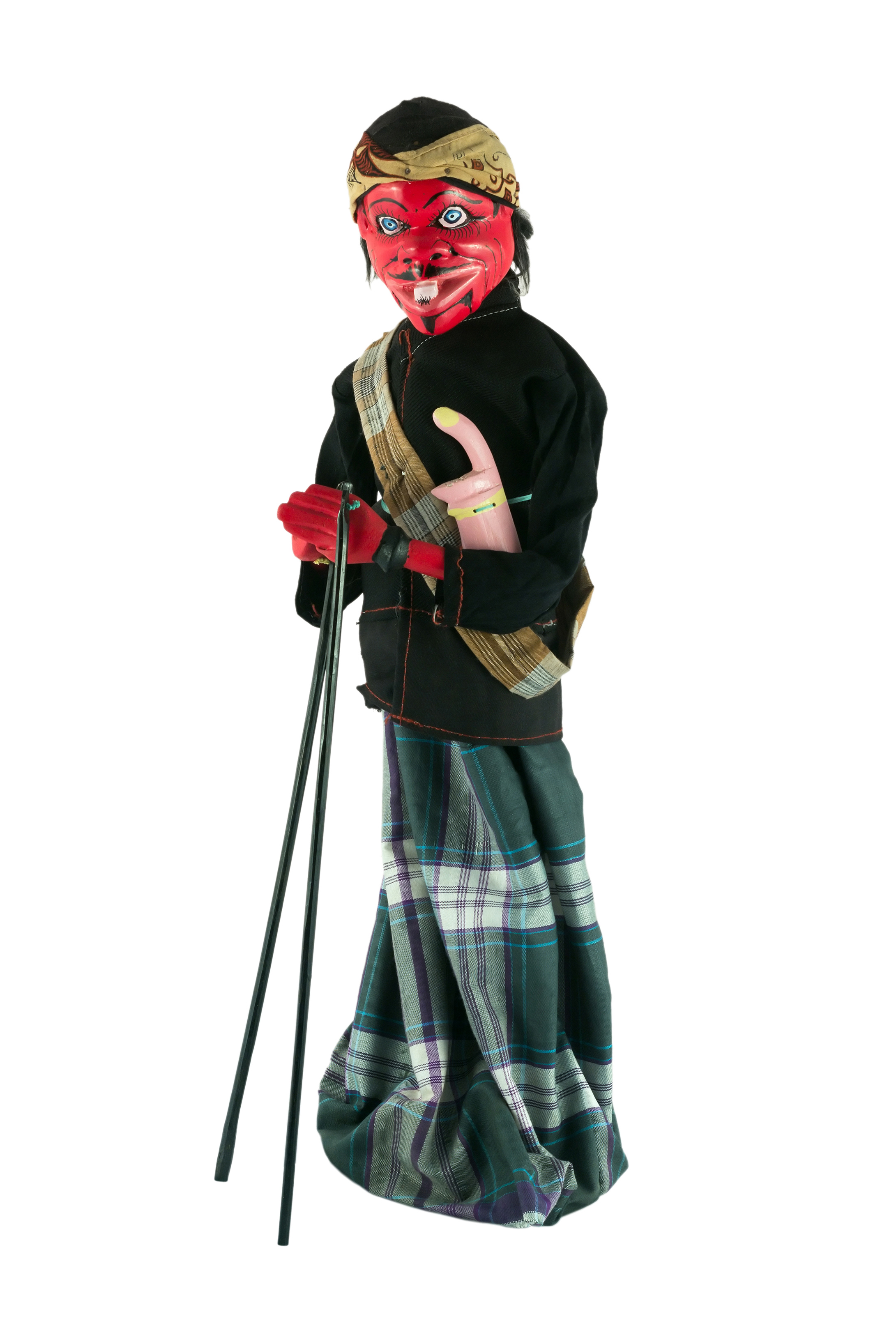 Cepot in wayang golek form, 2015-05-14 01